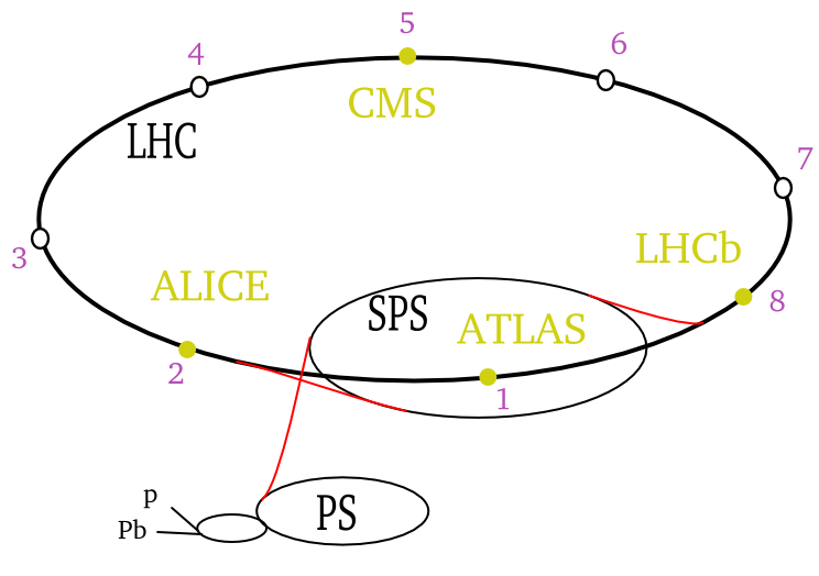 The octants of the Large Hadron Collider at CERN, Switzerland: At the octants 1, 2, 5, 8 are the detectors. At 3 and 7 beam cleaning, at 6 can be dump the beam. The LEP detectors were L3 at 2, ALEPH at 4 OPAL at 6 and DELPHI 8. ATLAS ALICE (earlier L3) beam cleaning Radio Frequency (earlier ALEPH) CMS dumping the beam (earlier OPAL) beam cleaning LHCb (earlier DELPHI)